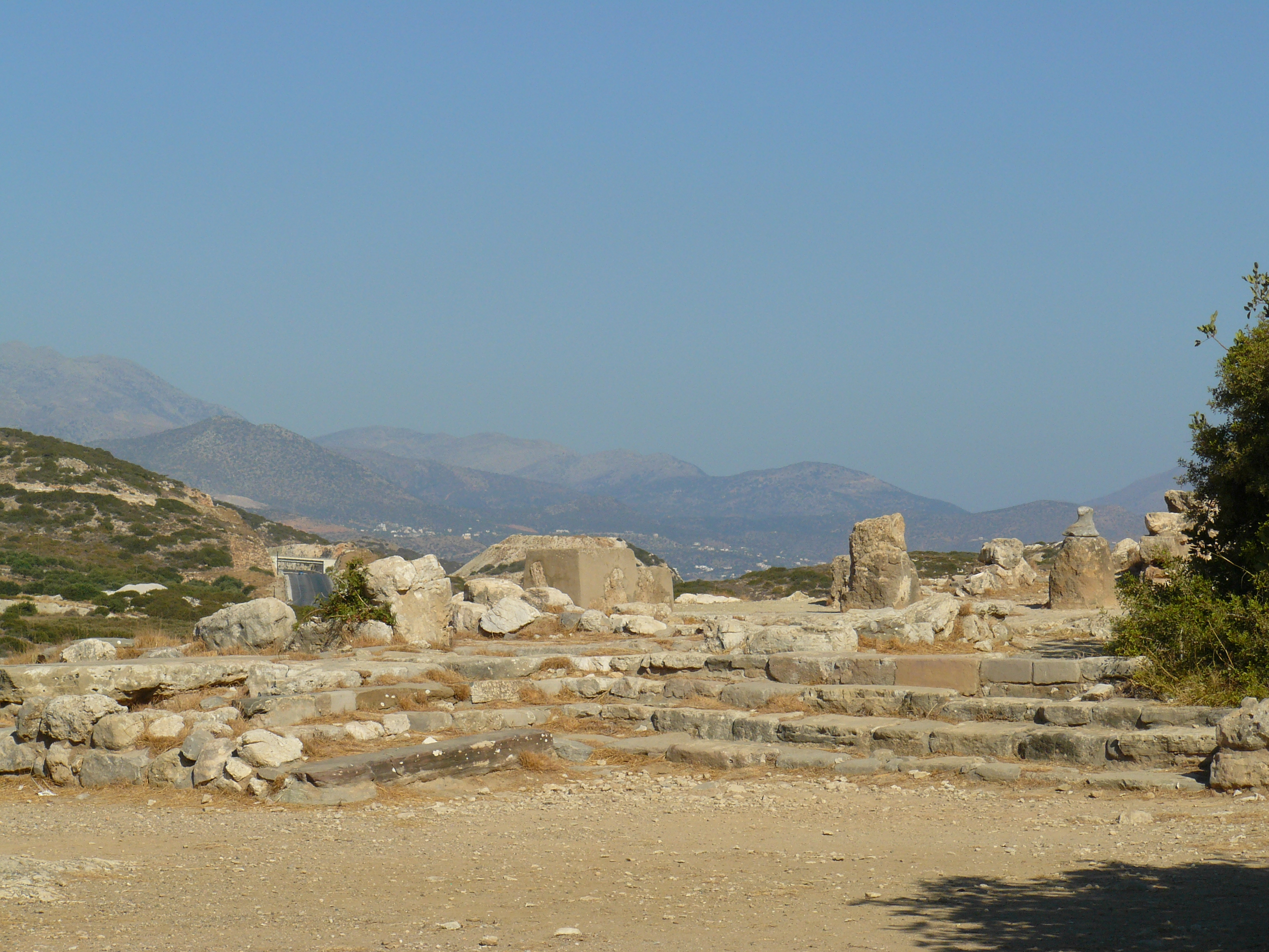 The Palace of Gournia. View from the square to the north.